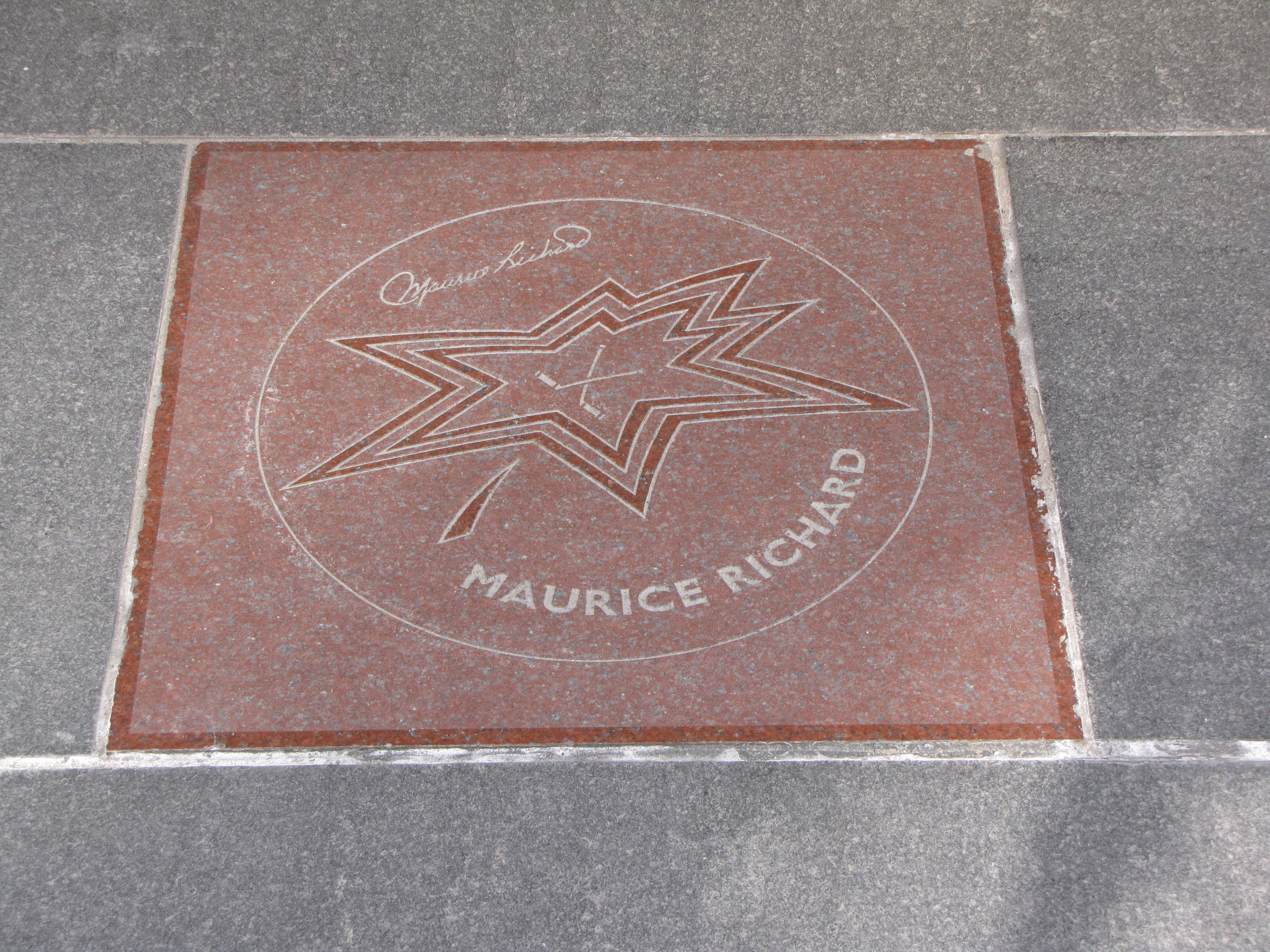 Maurice Richard's star on Canada's Walk of Fame